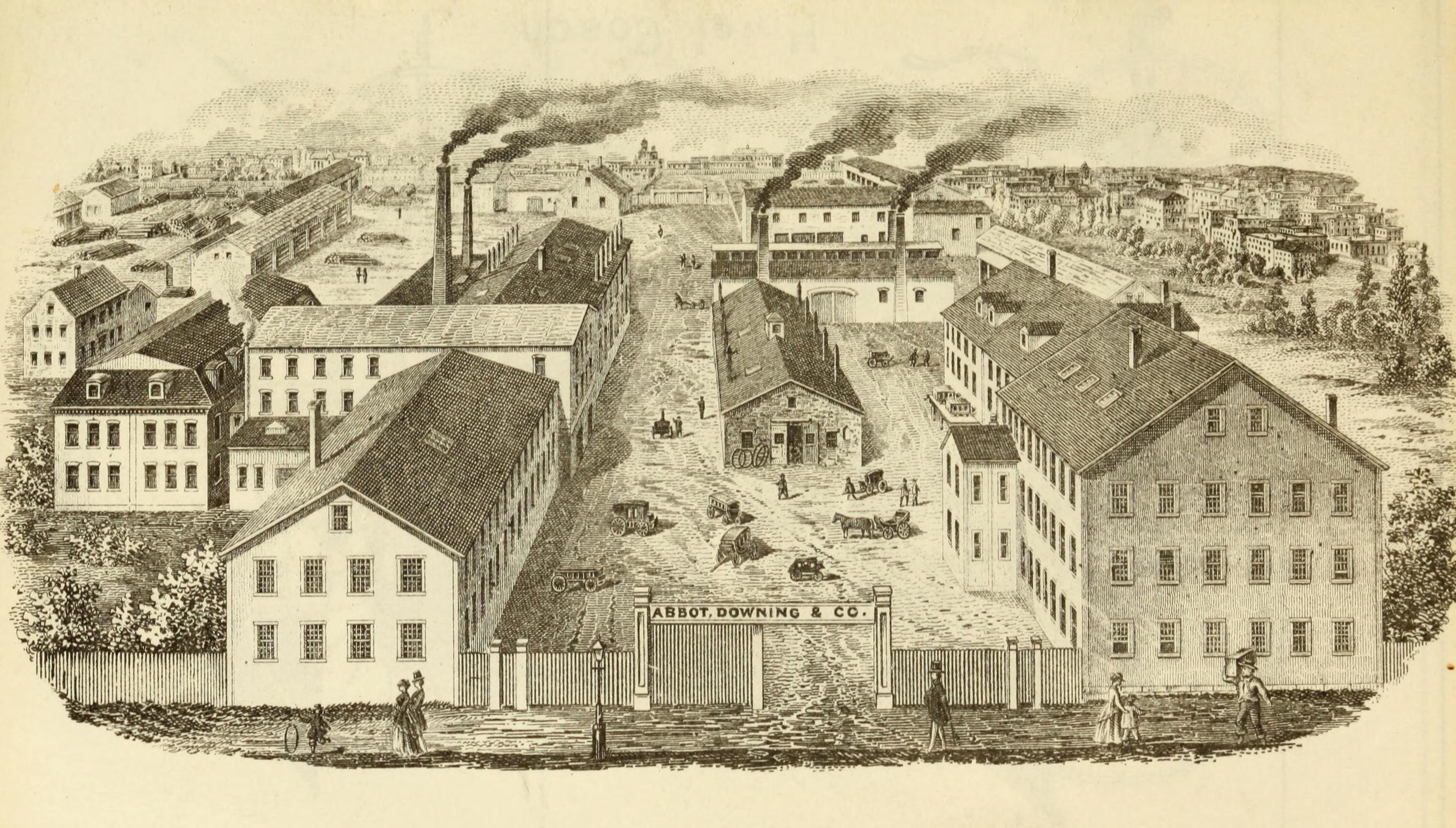 Drawing of Abbot Downing factory